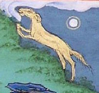 Shakyamuni Buddha - Jataka (previous lives) #25 The Fabulous Sharabha Deer